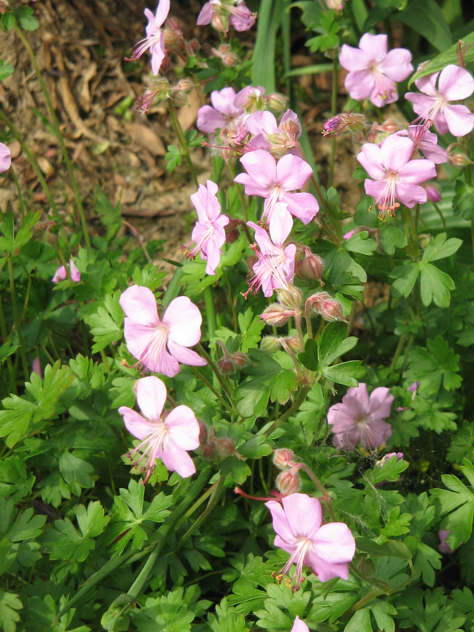 Geranium dalmaticum